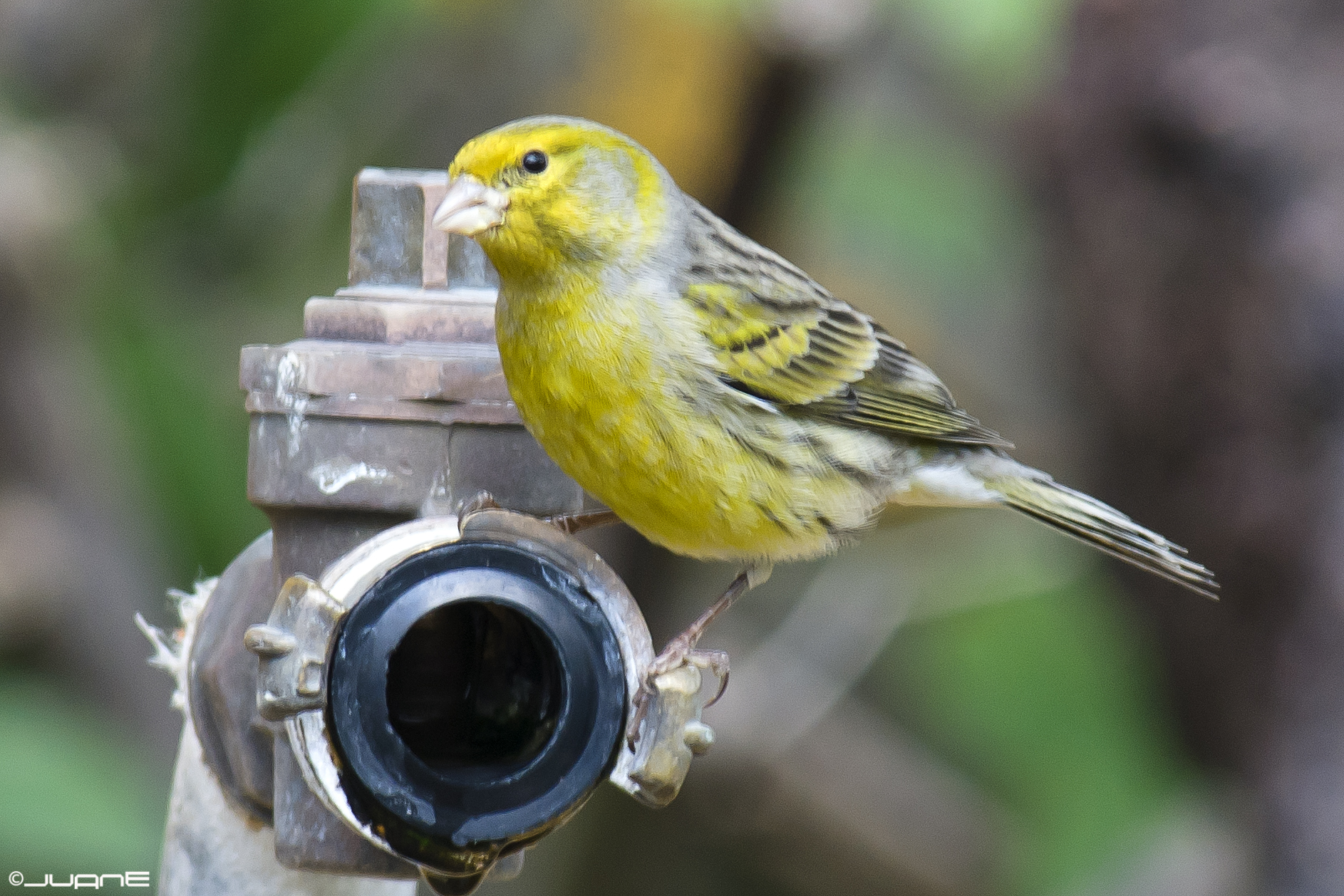 Sony A580 + Sigma 300 f4 telemacro + TCx1,7